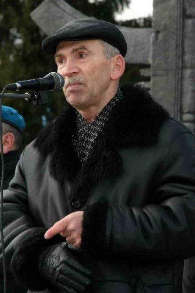 Colonel Khabarov’s speech at the at the November 7, 2010 veterans meeting in Yekaterinburg, Russia. Sharp criticism of the Russian military reform and the defense secretary incumbent in particular.